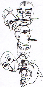 Masks sold for Fat Tuesday 1927, in Paris. Among them: the garçonne and bolchévik knife between his teeth.